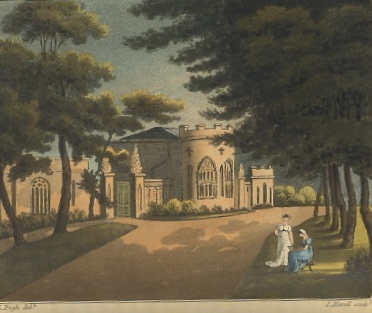 Ogwen Bank, Bethesda, North Wales c.1815